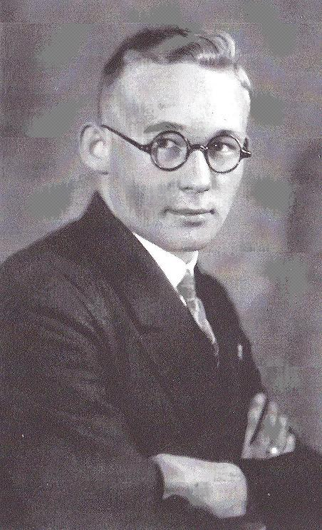 Willi Koerber (* 1911), Obergebietsführer (Main-Section leader) of the Hitler-Youth.